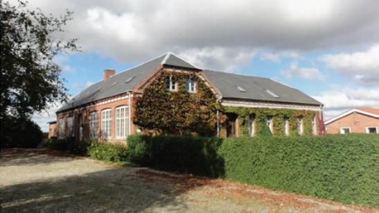 Stovring old school